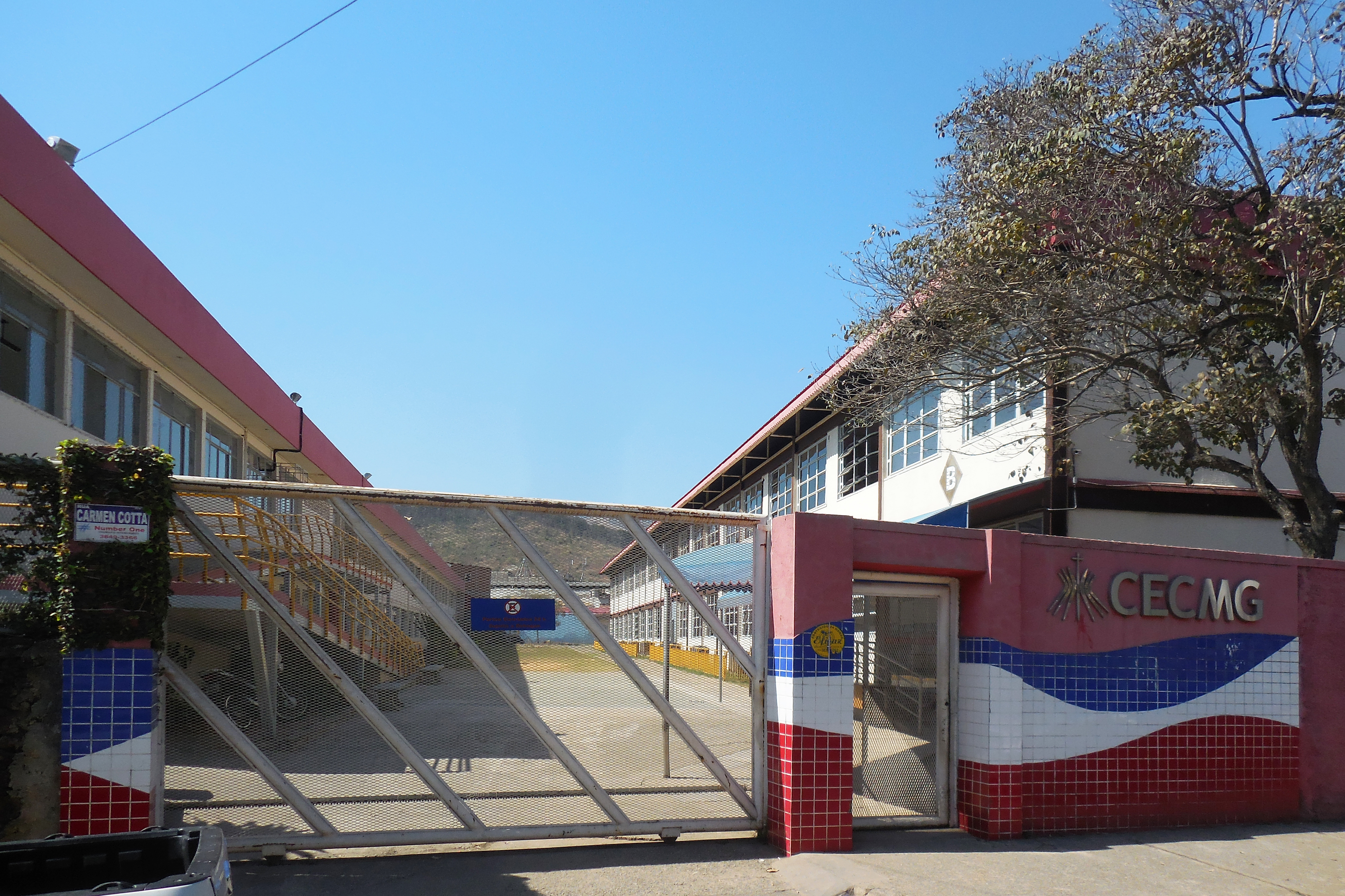 Entrance of the CEC collegium (Centro Educacional Católica do Leste de Minas Gerais), in Timóteo, Minas Gerais, Brazil.